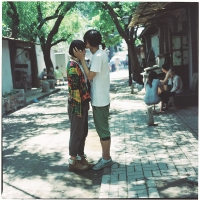 Zhu Lan Qing Project: Meet Strangers